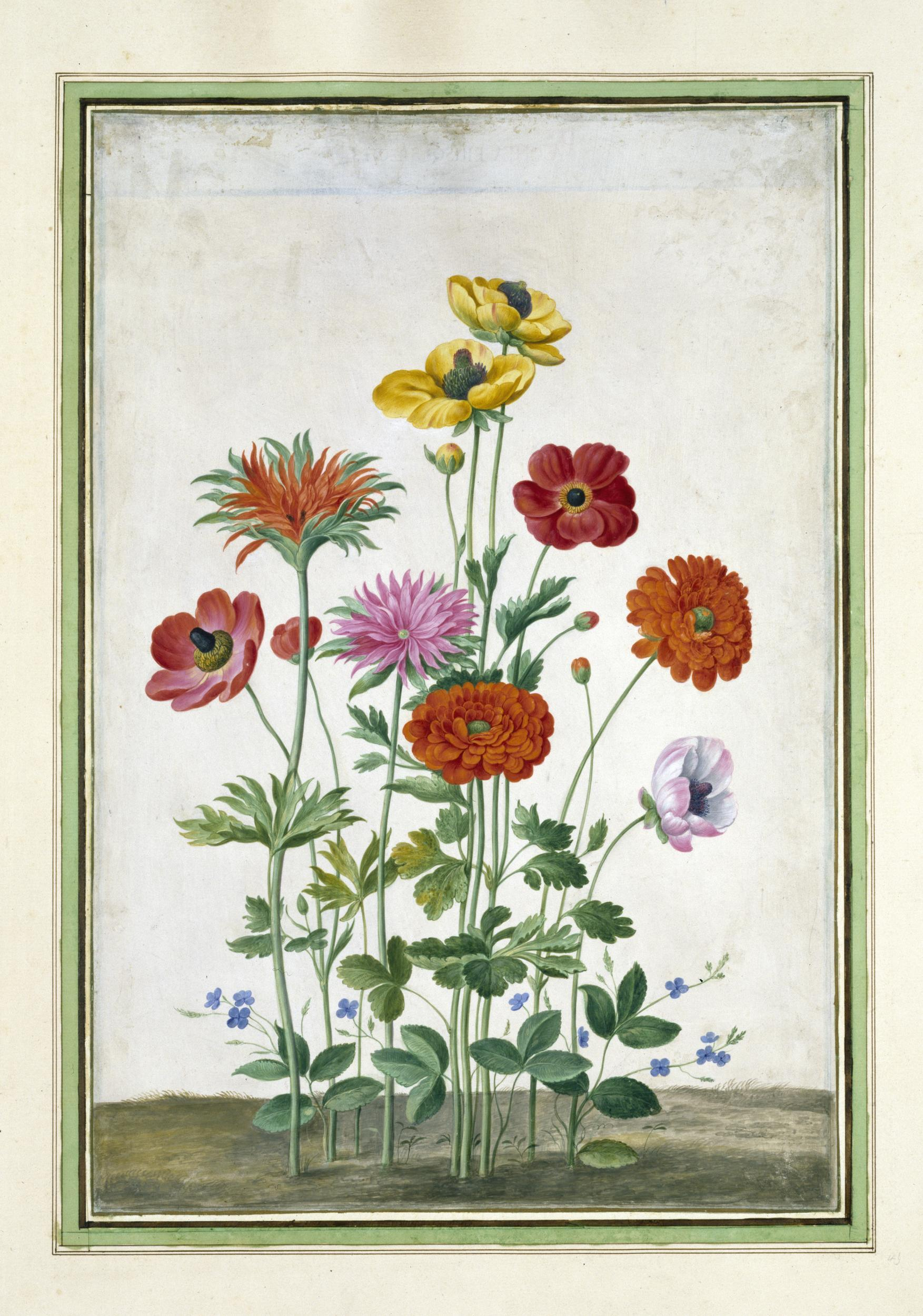 "A flower study from volume 1 of the Nassau Florilegium at the Victoria and Albert Museum (height 600 mm x width 462 mm)"